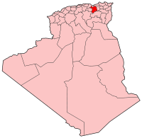 Map of Algeria showing Setif province.